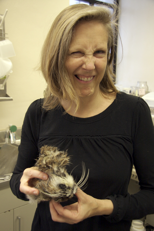 Mary Roach with cat head